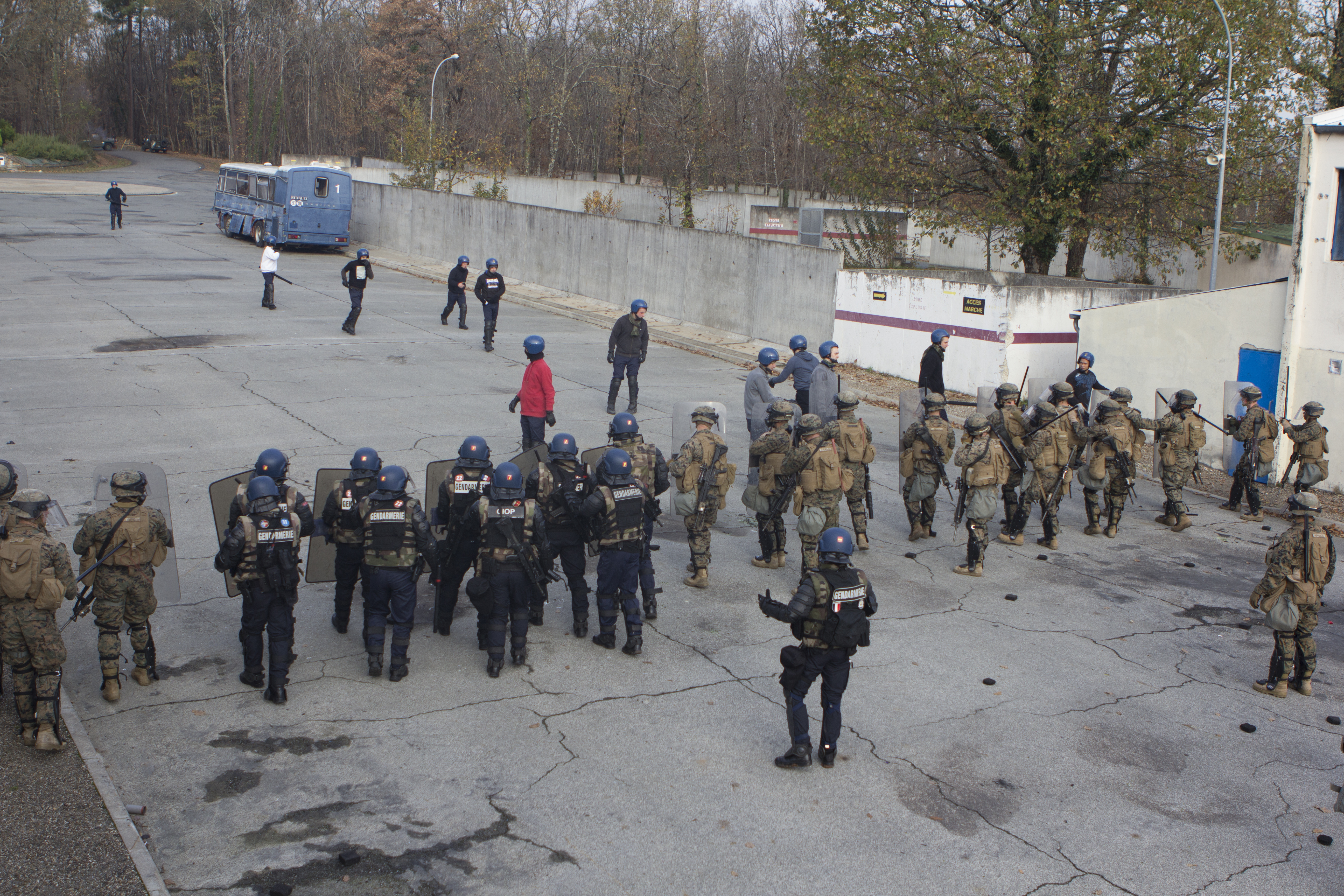 U.S. Marines with SPMAGTF Crisis Response – Africa and French gendarmes with Mobile Gendarmeries Armored Group are taunted by role-playing rioters during crowd and riot control techniques training at the National Gendarmerie Training Center in St. Astier, France, Dec. 3, 2014. The exercise allowed the Marines to gain greater knowledge of non-lethal tactics, techniques and procedures while enhancing interoperability with the French Gendarmerie and strengthening the U.S. partnership with France. (U.S. Marine Corps photo by Cpl Jeraco Jenkins/Released)